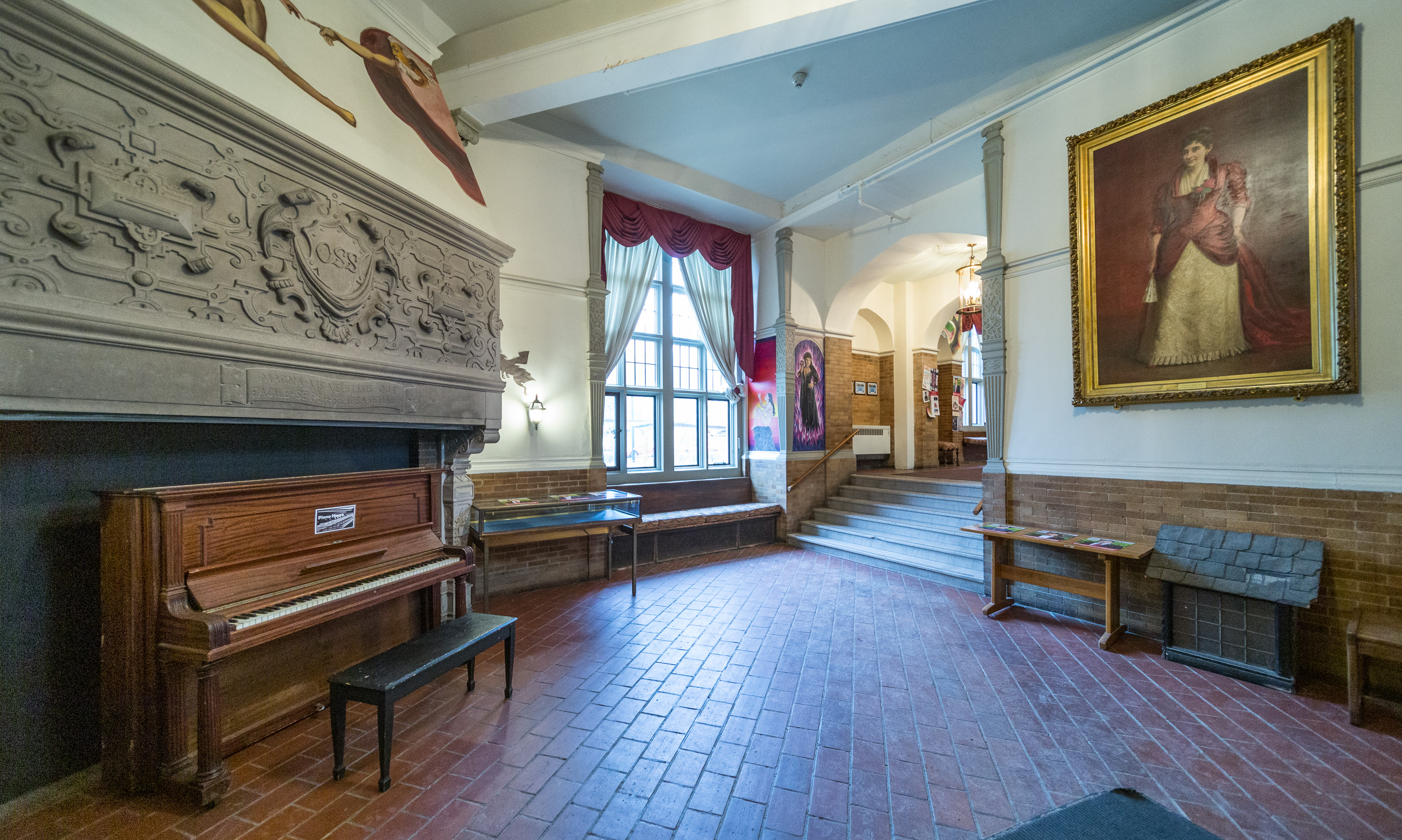 Inside Risley Hall, Cornell University. Portrait of Margaret Slocum Sage on the wall.